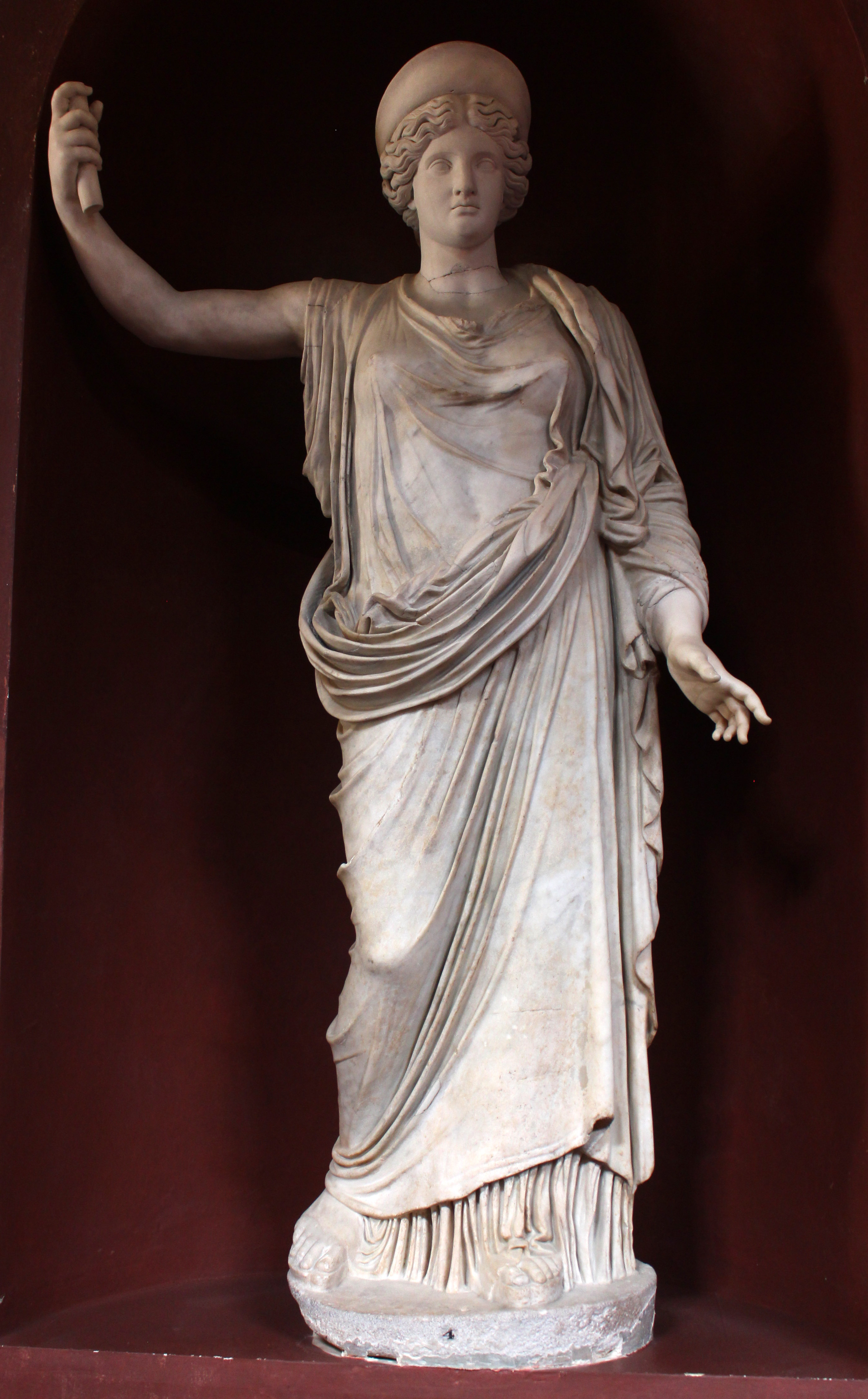 Statue of Hera, Petworth House